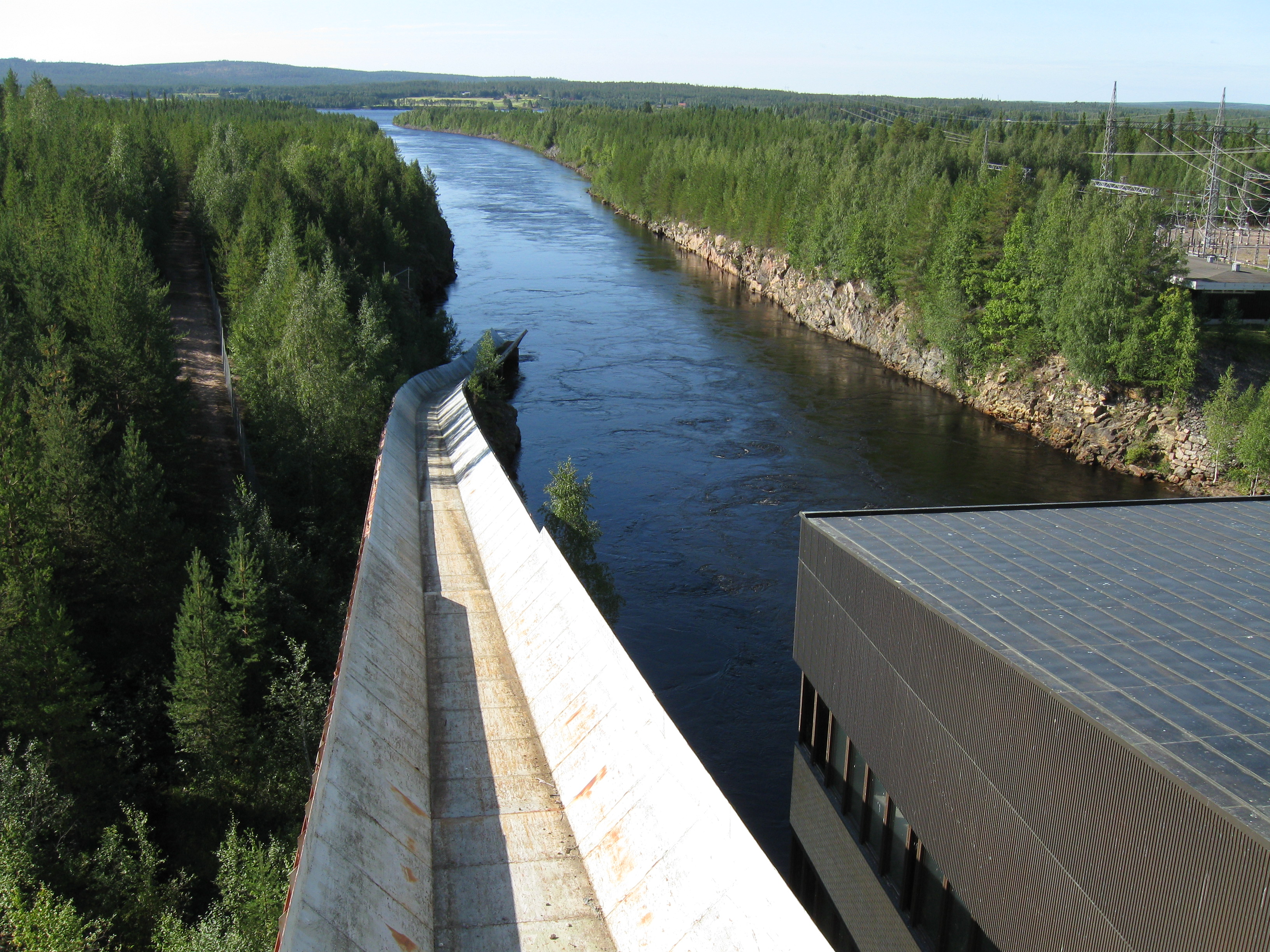 The Seitakorva power plant in the Kemijoki river in Kemijärvi, Finland.